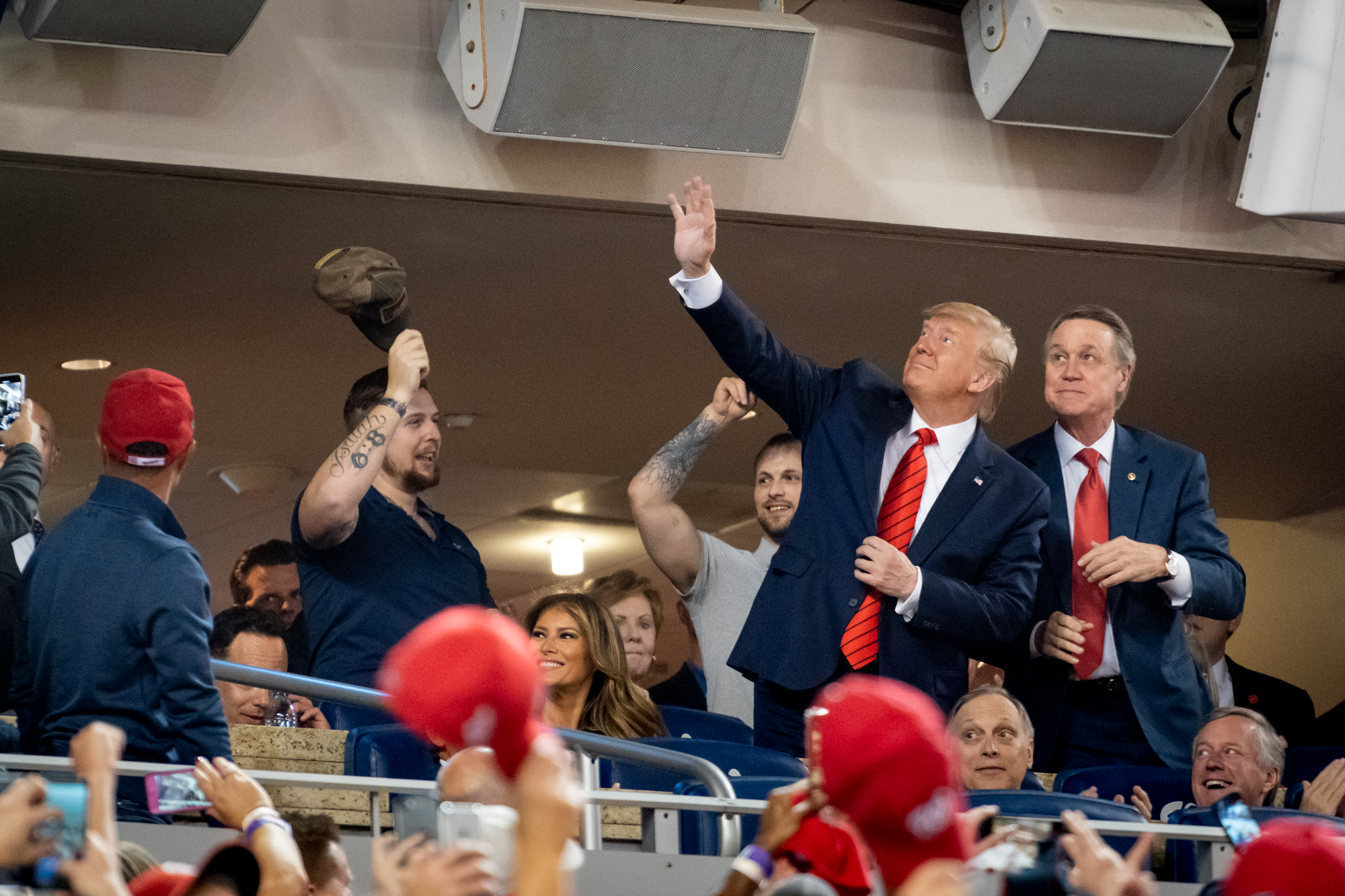 President Donald J. Trump waves to the crowd during Game 5 of the MLB World Series between the Washington Nationals and the Houston Astros Sunday, Oct. 27, 2019, at Nationals Park in Washington, D.C. (Official White House Photo by Andrea Hanks)